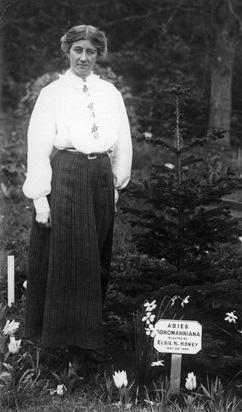 Suffragette Elsie Howey. This picture was taken by Colonel Linley Blathwayt and was stored on glass negatives. The Blathwayt's home of Eagle House way the home of Linley, Emily and Mary Blathwayt who all actively supported the suffragette cause. Nearly all the prominient UK suffragettes stayed with them and these photos and dozens of trees were planted to commemorate their visits. Col. Linley Blathwayt took these pictures between 1908 and 1912. He died in 1919. The pictures are made available in larger formats by .